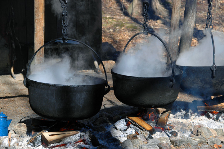 Maple syrup being prepared at the Kortright Conservation Centre in Vaughan, Ontario, Canada.